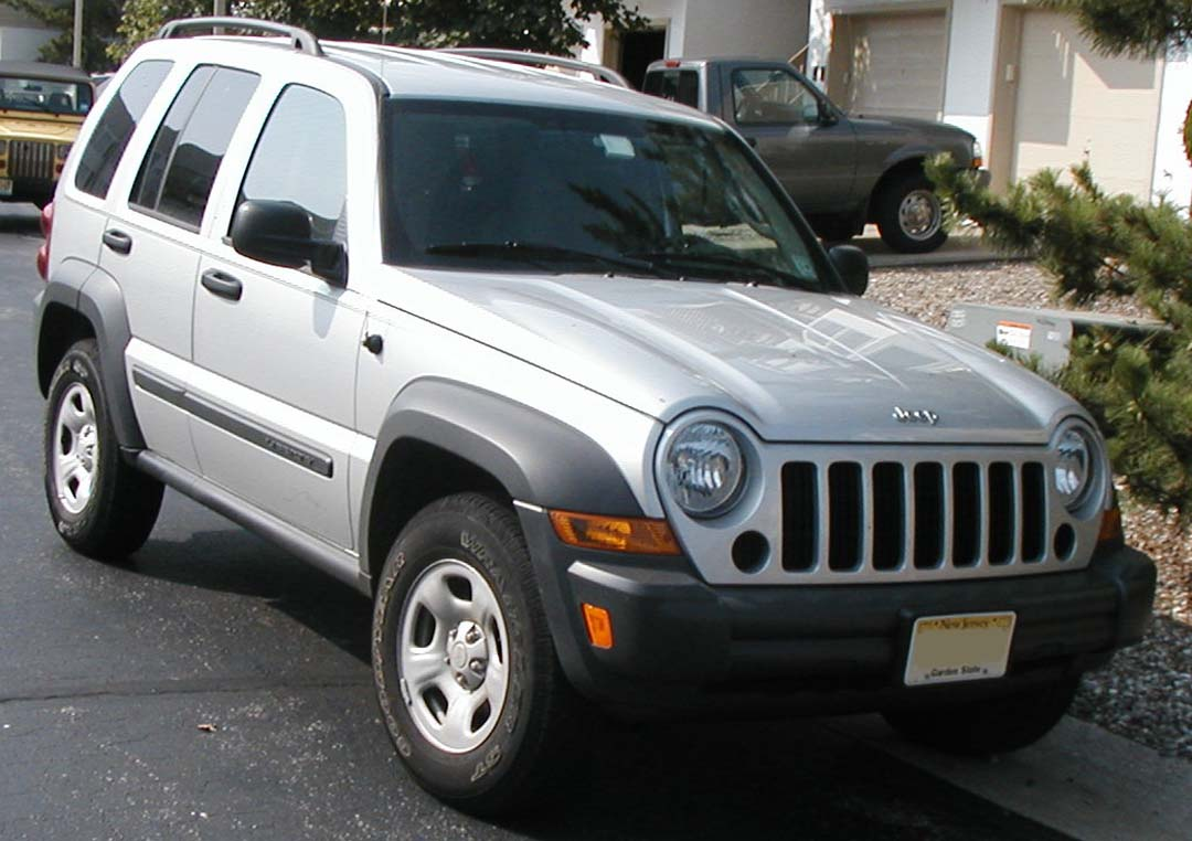 2005-2006 Jeep Liberty photographed in USA.